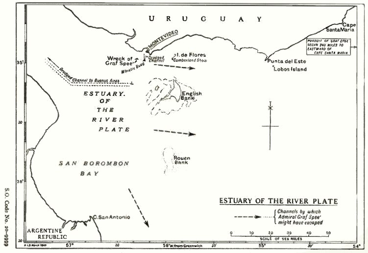 Map of the estuary of the River Plate showing possible exit channels available to the German heavy cruiser Admiral Graf Spee after the Battle of the River Plate in December 1939.